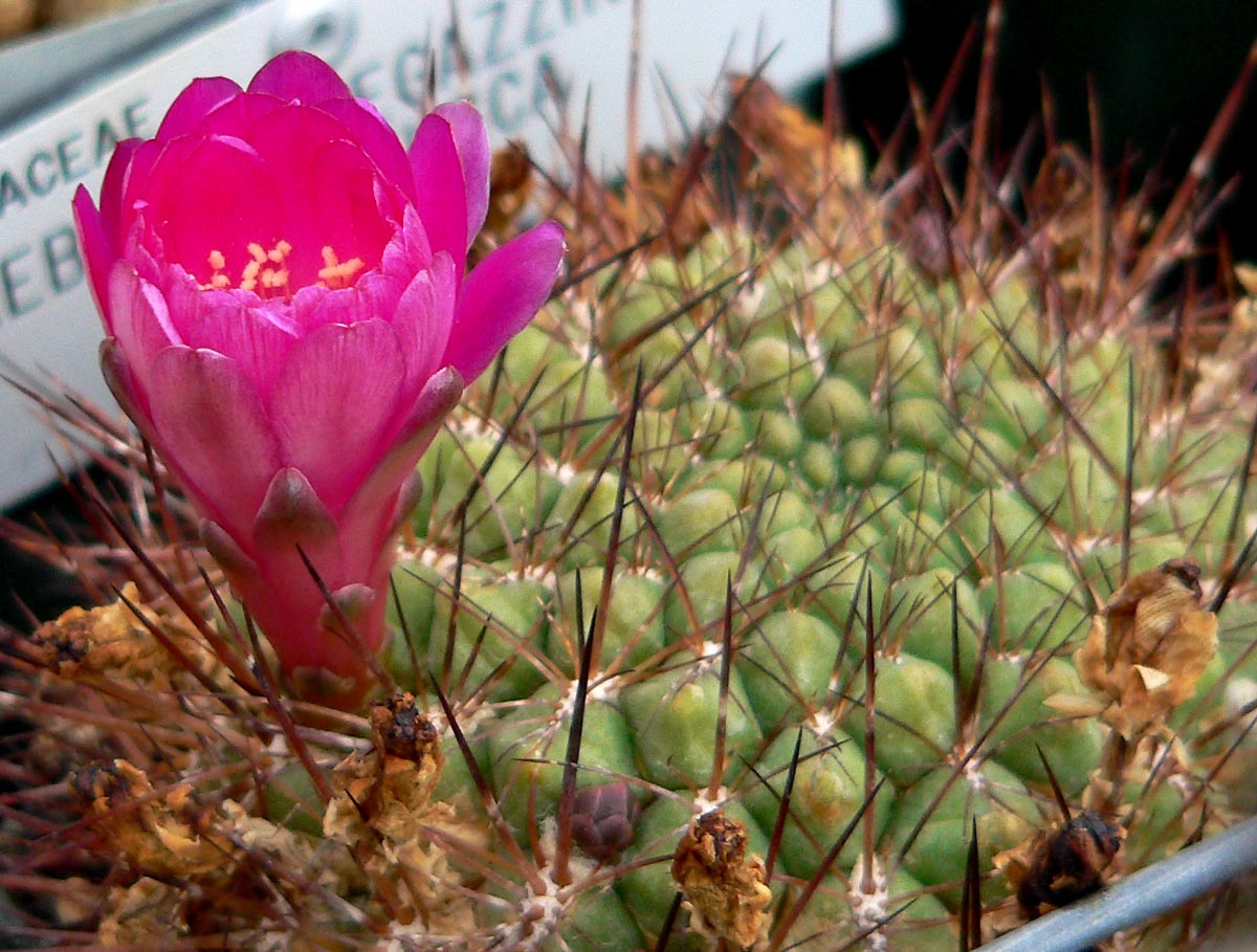 Photo of Sulcorebutia steinbachii at the University of California Botanical Garden